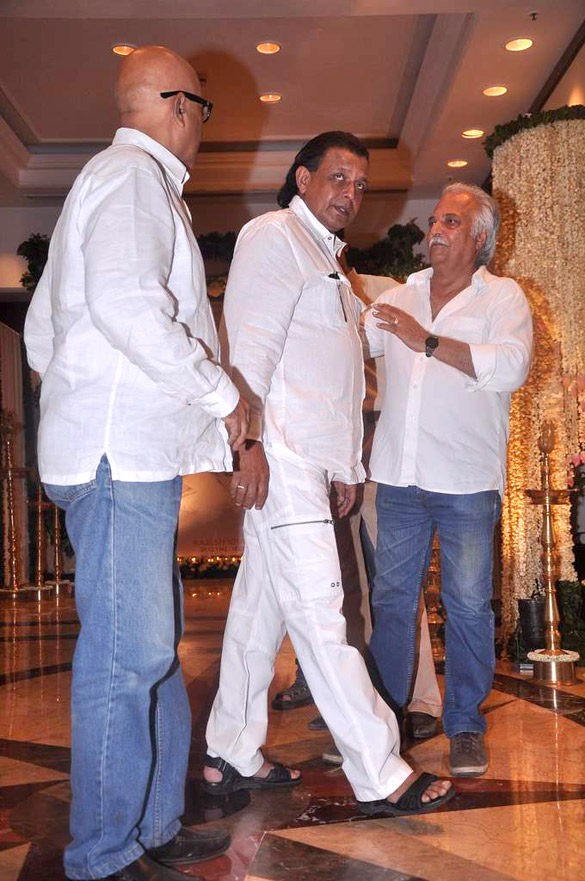 Mithun Chakraborty at Rajesh Khanna's prayer meet